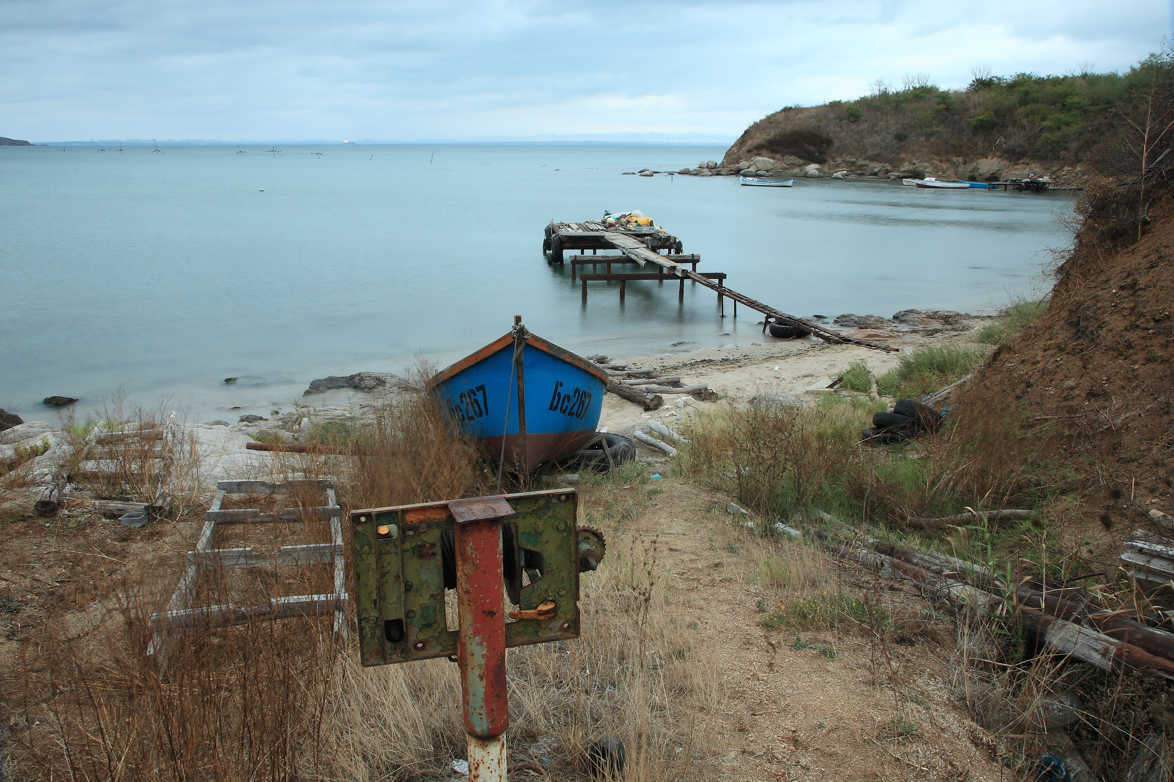 Little fish port at Akin cape